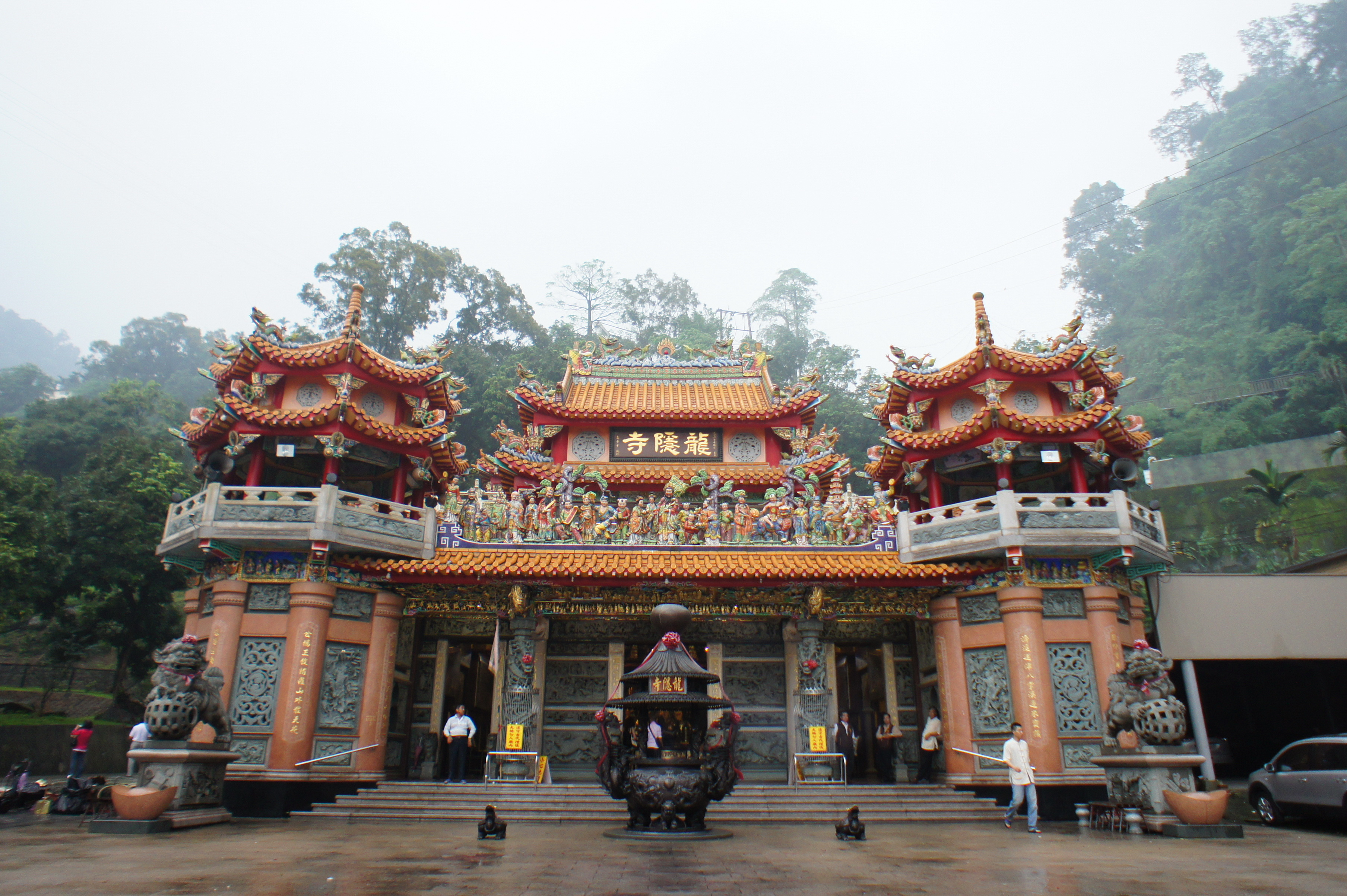 Longyin Temple, Chukou Village, Chiayi County, Taiwan.